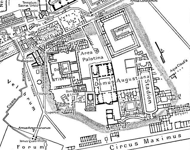 Palatine hill